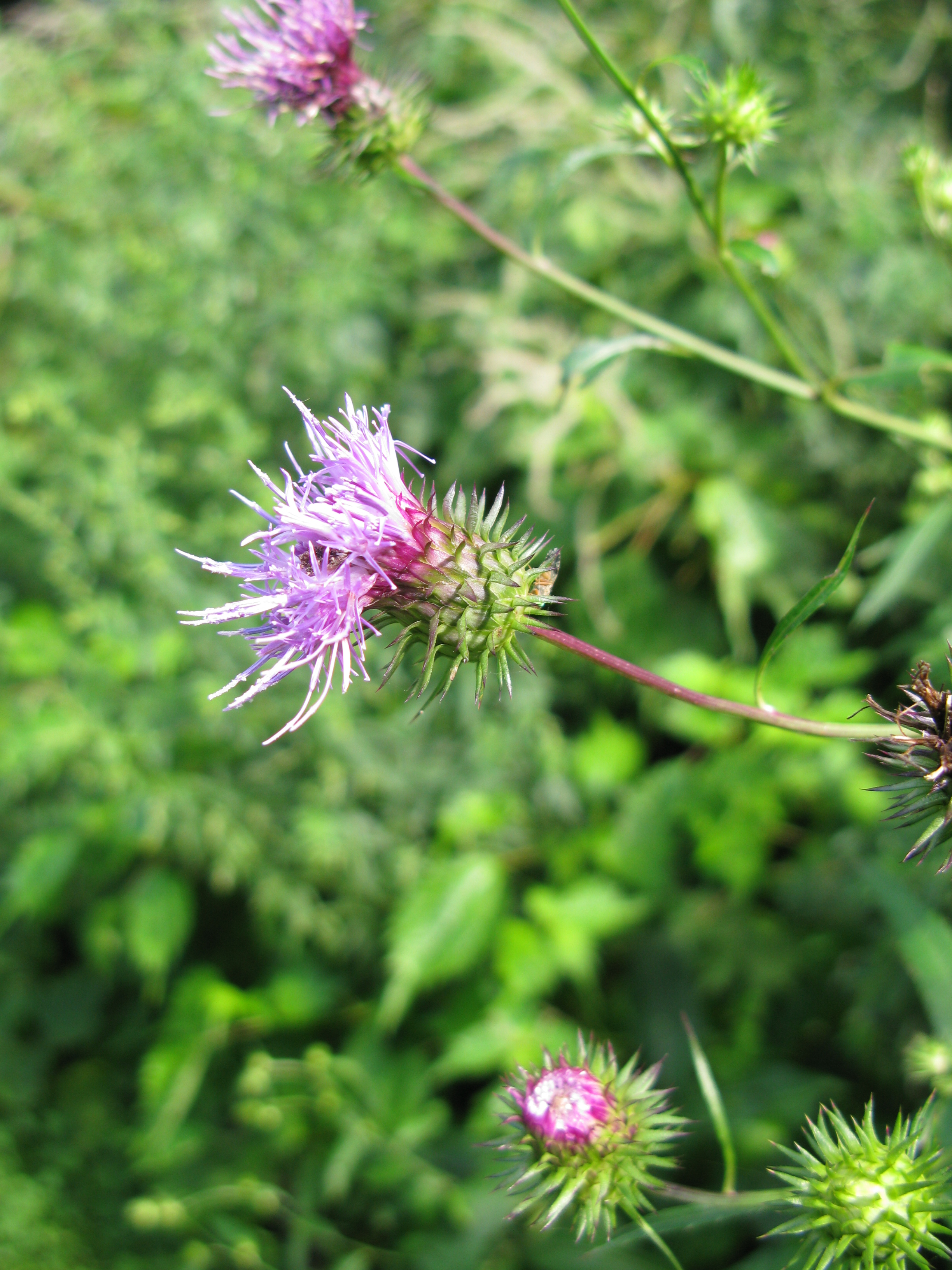 Cirsium amplexifolium,Yamagata City Wild Plants Garden, Yamagata pref., Japan